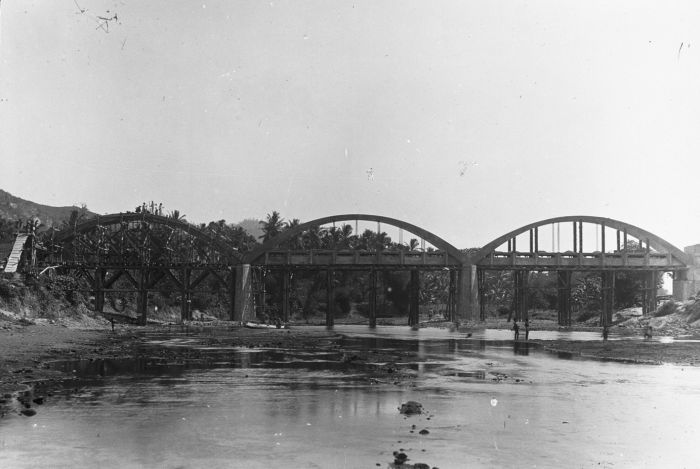 Aquaduct under construction across the river, Gerung